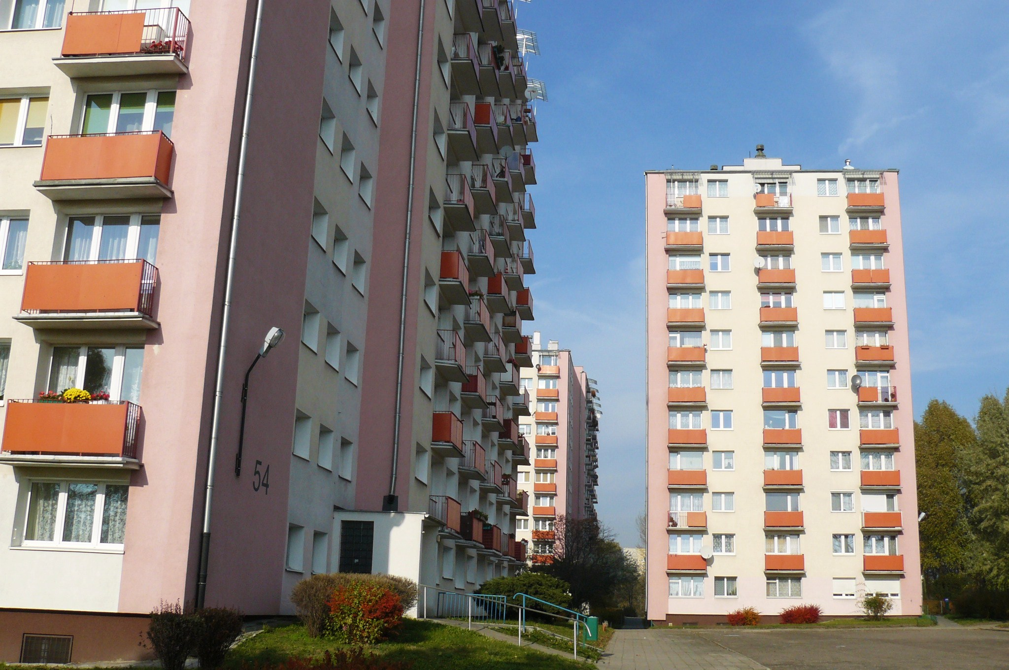 Komandoria-Pomet - district in Poznan.